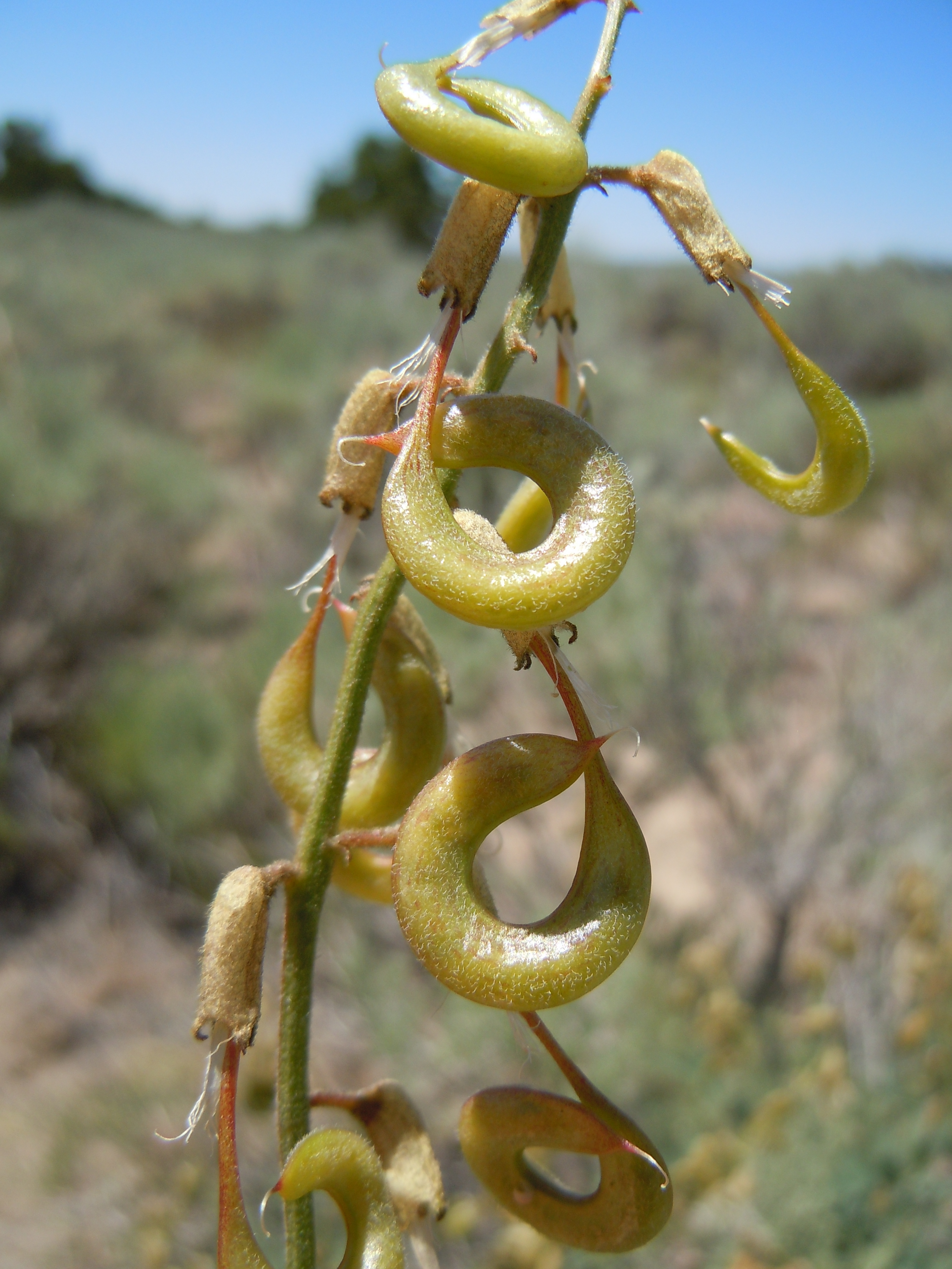 Astragalus curvicarpus is sporadically abundant at all elevations in the sagebrush steppe in this area and can be locally common along roadsides that are subjected to infrequent disturbance (as inside the INL boundary).